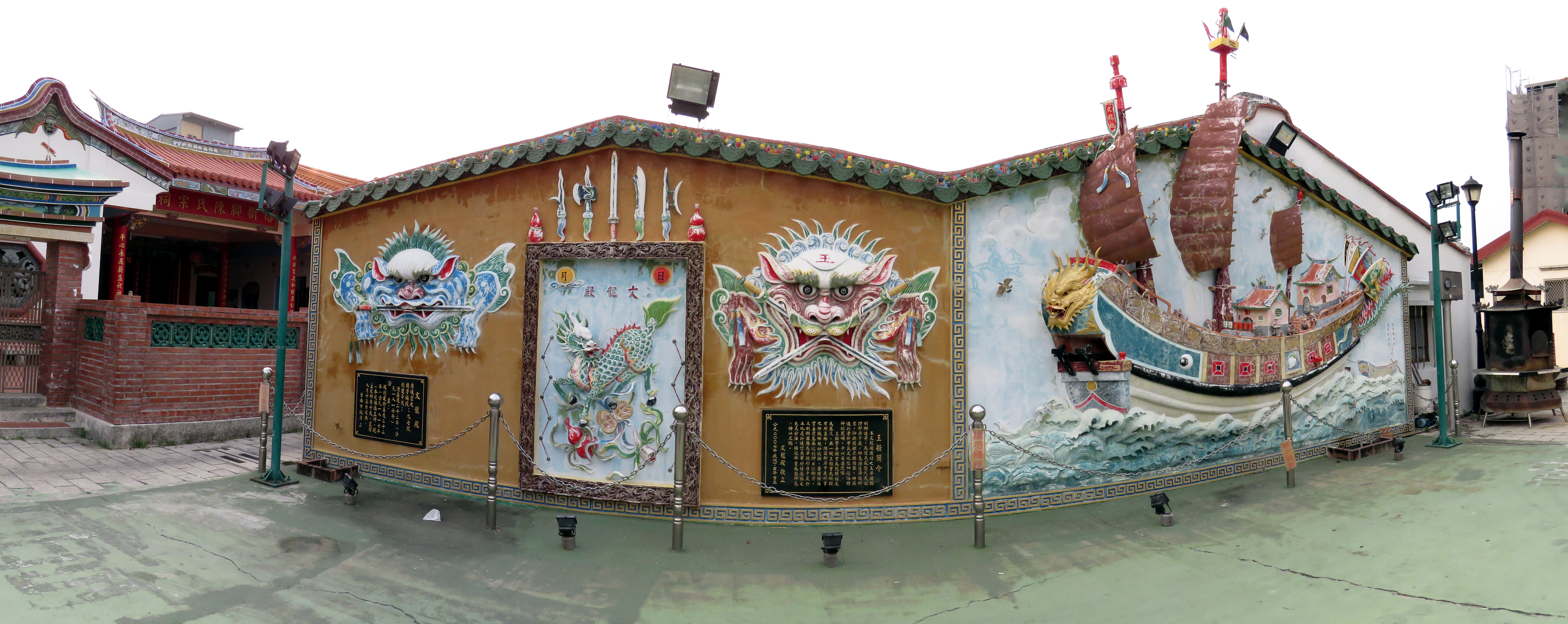 Decorative wall in Anping, Tainan, Taiwan.